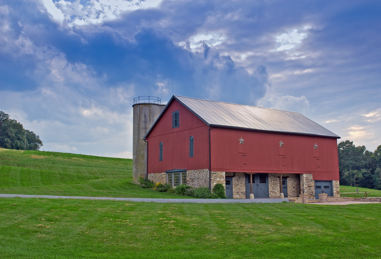 An Amish barn in Pennsylvania.